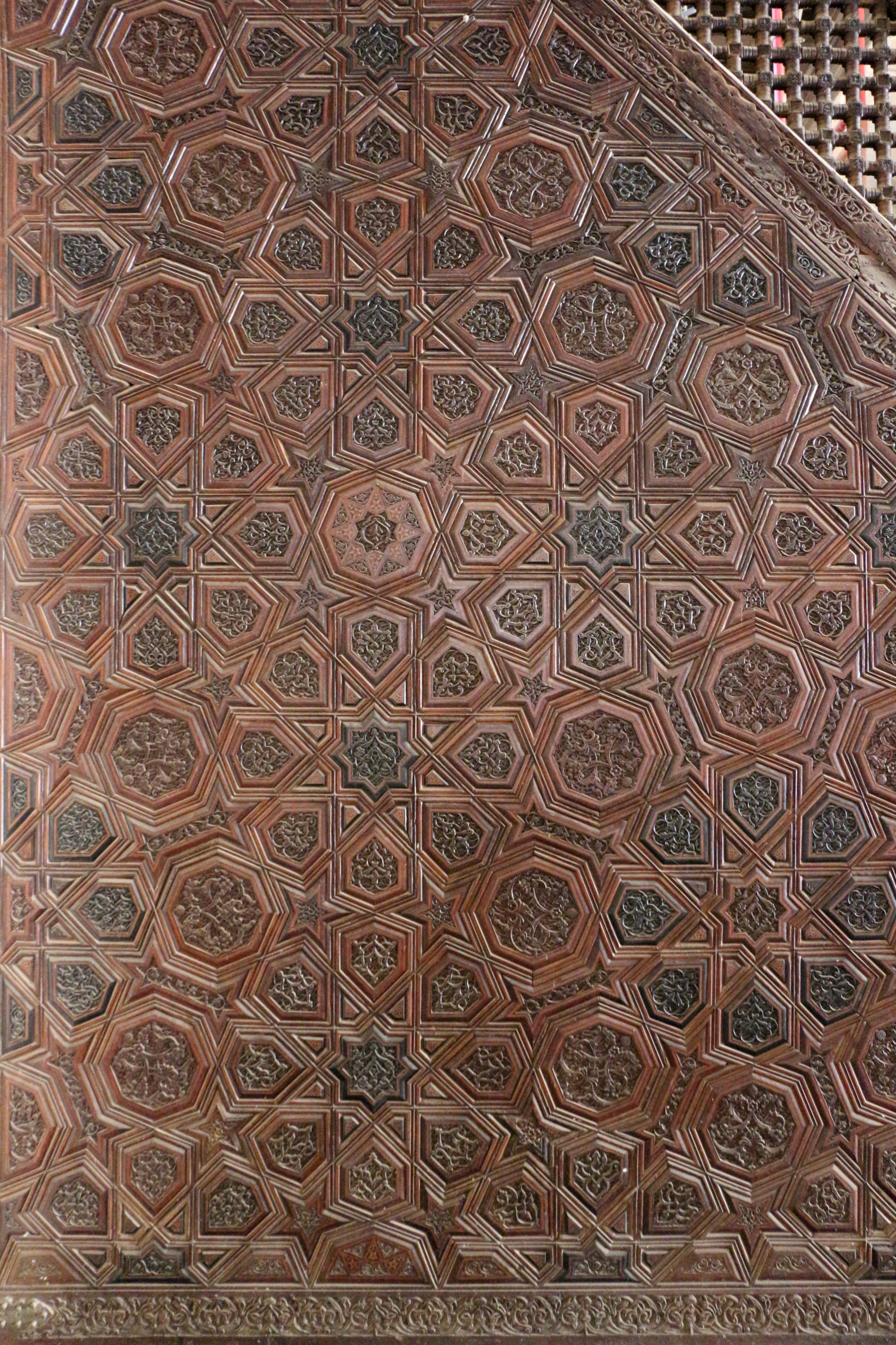 Mosque of Ibn Tulun